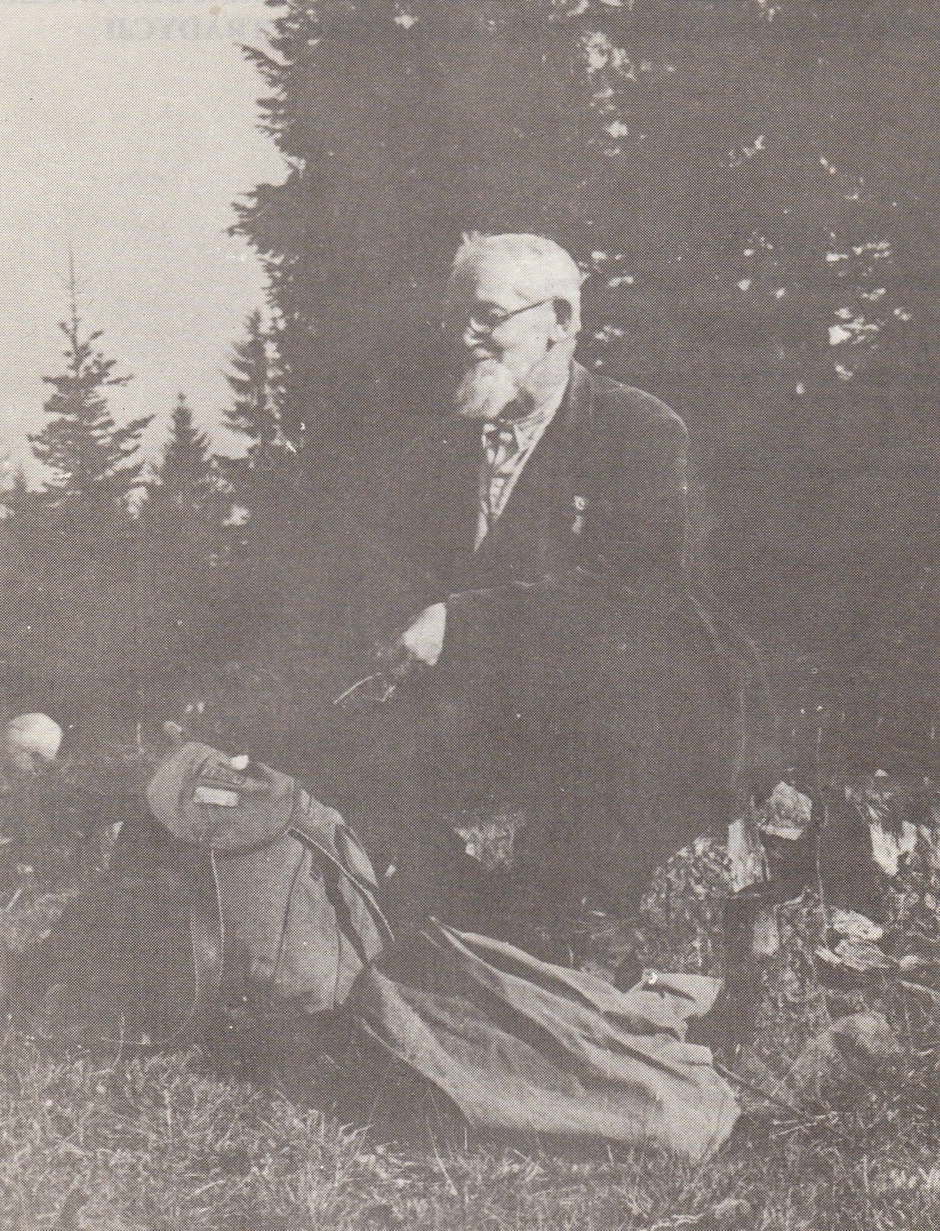 Mieczysław Orłowicz in Beskid Wyspowy